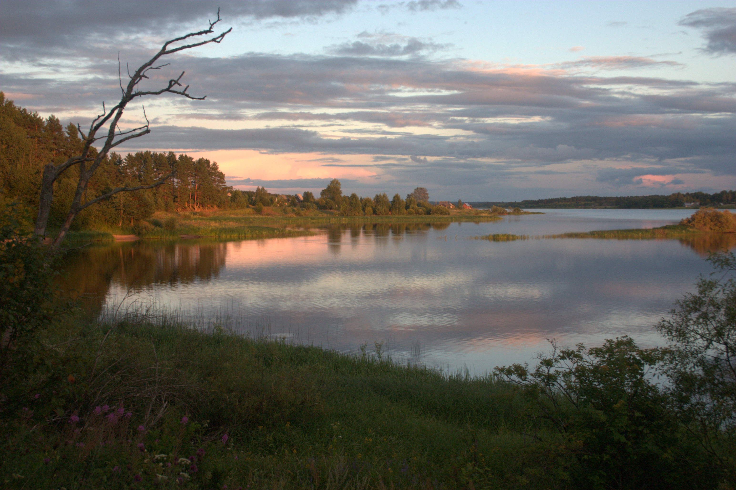 Lake Sterzh, Valdai, Russian Federation